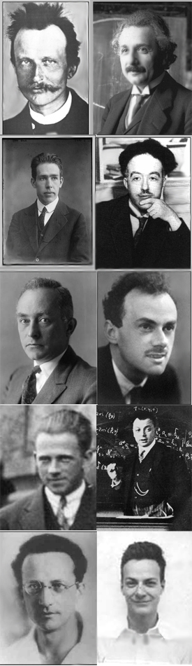 Ten physicists who made great contributions to quantum mechanics (quantum physics). Albert Einstein during a lecture in Vienna in 1921 (age 42).Niels Bohr as a young man. Exact date of photo not known. Digital ID: ggbain 35303 Source: digital file from original neg. Reproduction Number: LC-DIG-ggbain-35303 (digital file from original negative) Repository: Library of Congress Prints and Photographs Division Washington, D.C. 20540 USALouis de Broglie*Beschreibung: Max Born *Quelle: *Lizenzstatus: first upload in de wikipedia on 15:32, 10. Mär 2005 by Dilerius 253 x 326 (11.277 Byte) (Max Born)Paul Dirac Heisenberg at 1927 Solvay Conference (cropped from [1])From COPYRIGHT STATUS: Documents authored by Fermilab employees are the result of work under U.S. Government contract DE-AC02-76CH03000 and are therefore subject to the following license: The Government is granted for itself and others acting on its behalf a paid-up, nonexclusive, irrevocable worldwide license in these documents to reproduce, prepare derivative works, and perform publicly and display publicly by or on behalf of the Government.Los Alamos wartime badge photo: Richard Feynman Source: Los Alamos National Laboratory, specific link